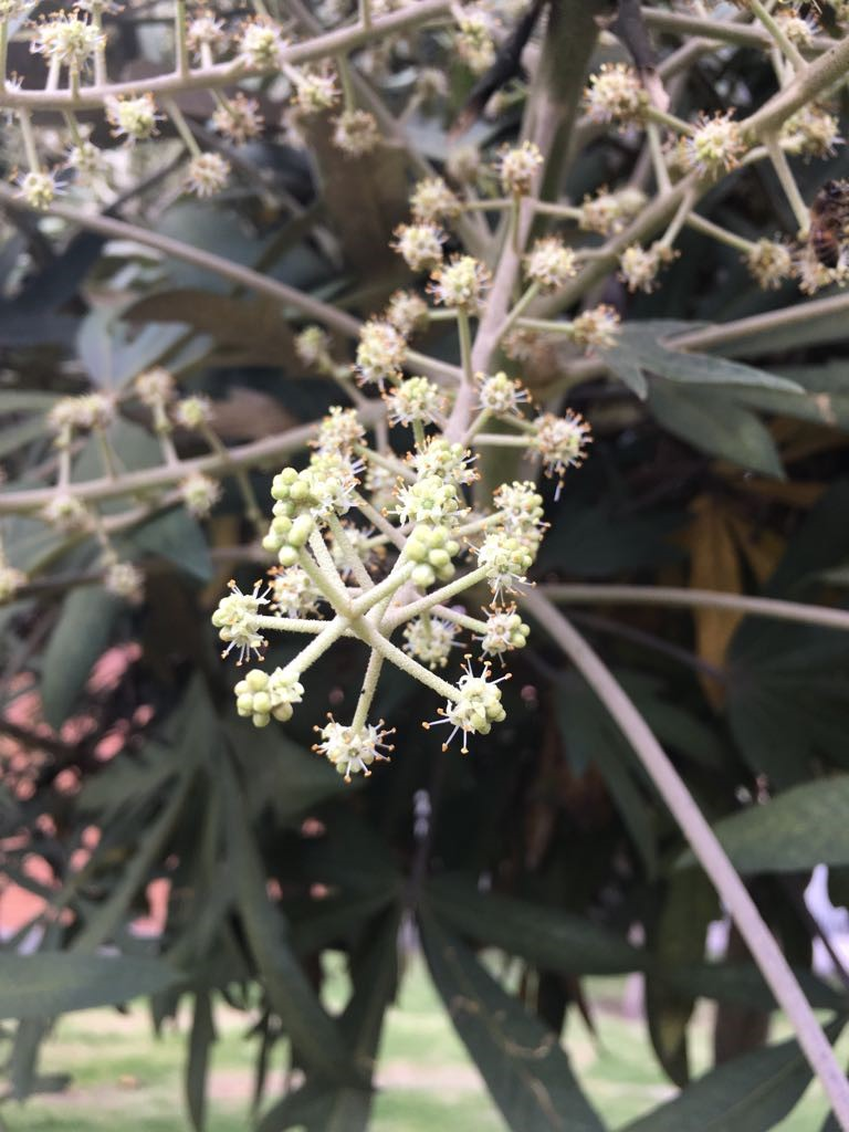 Oreopanax incisus inflorescence. Bogotá, Colombia.